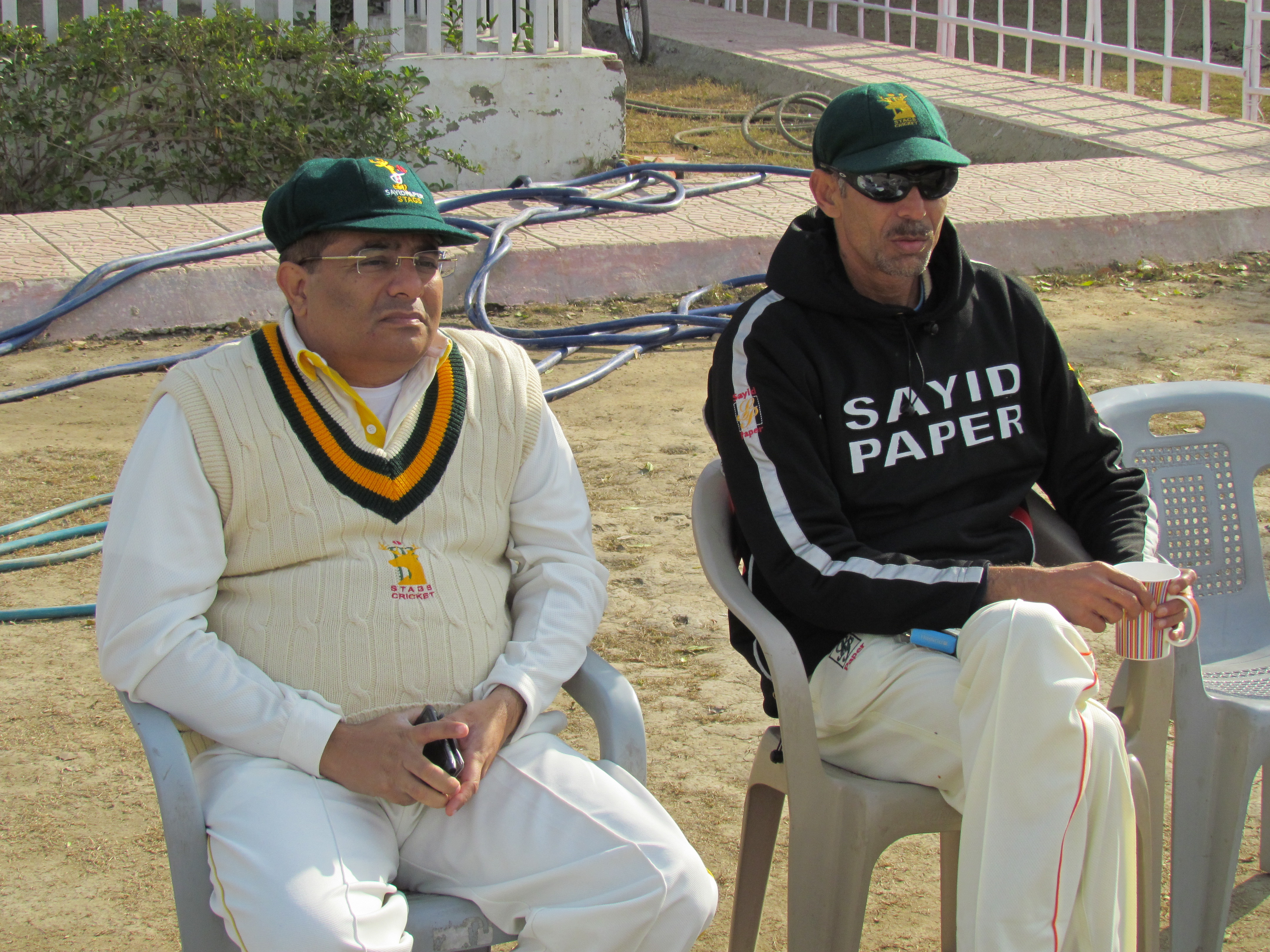 Shahid Anwar and Aizad Sayid